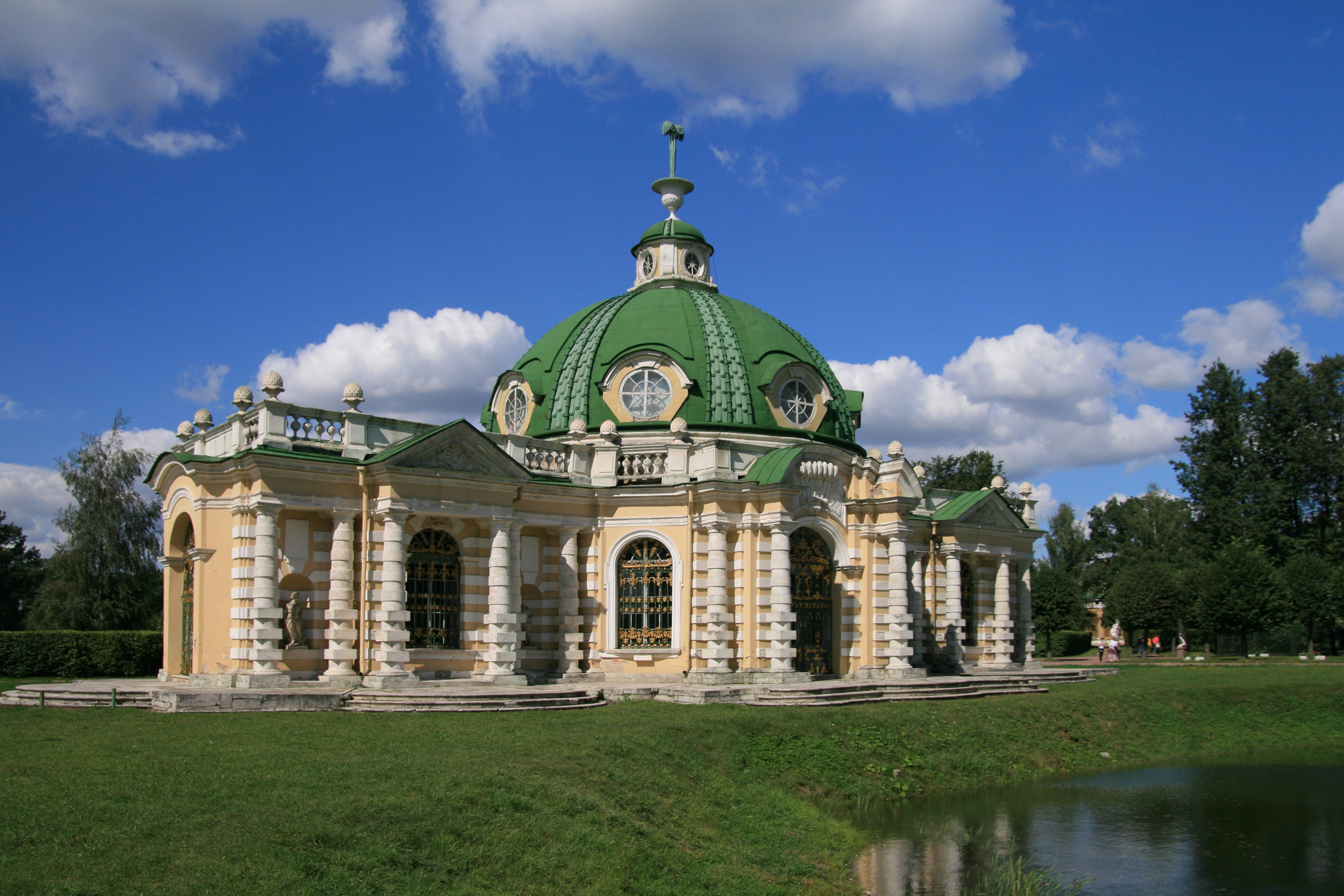 Pavilion "The Grotto" in Kuskovo Estate, 1755-1775, Moscow